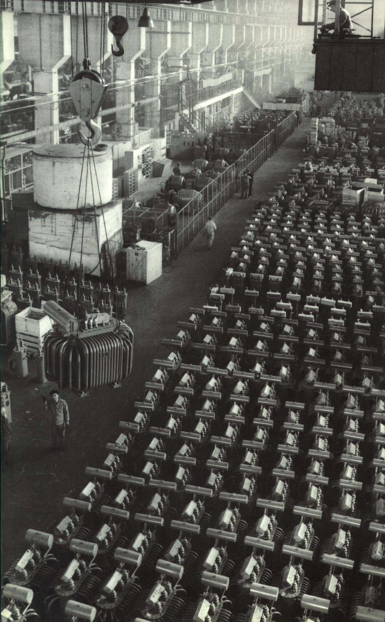 1965-02 1965 沈阳变压器厂